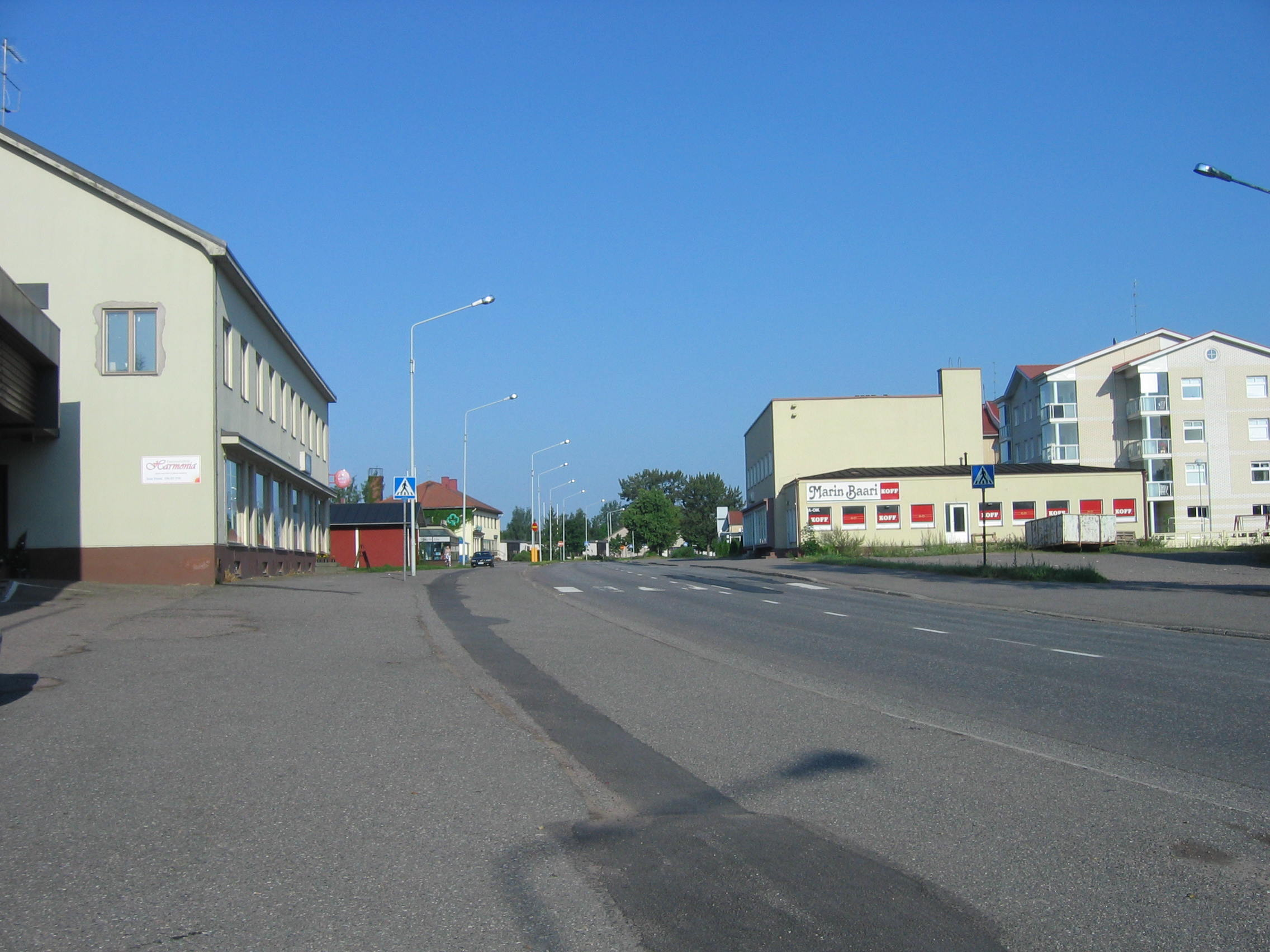 The centre of the municipality of Säkylä, Finland